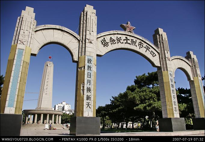 Siping martyr cenotaph, in Siping City, Jilin Province, China.